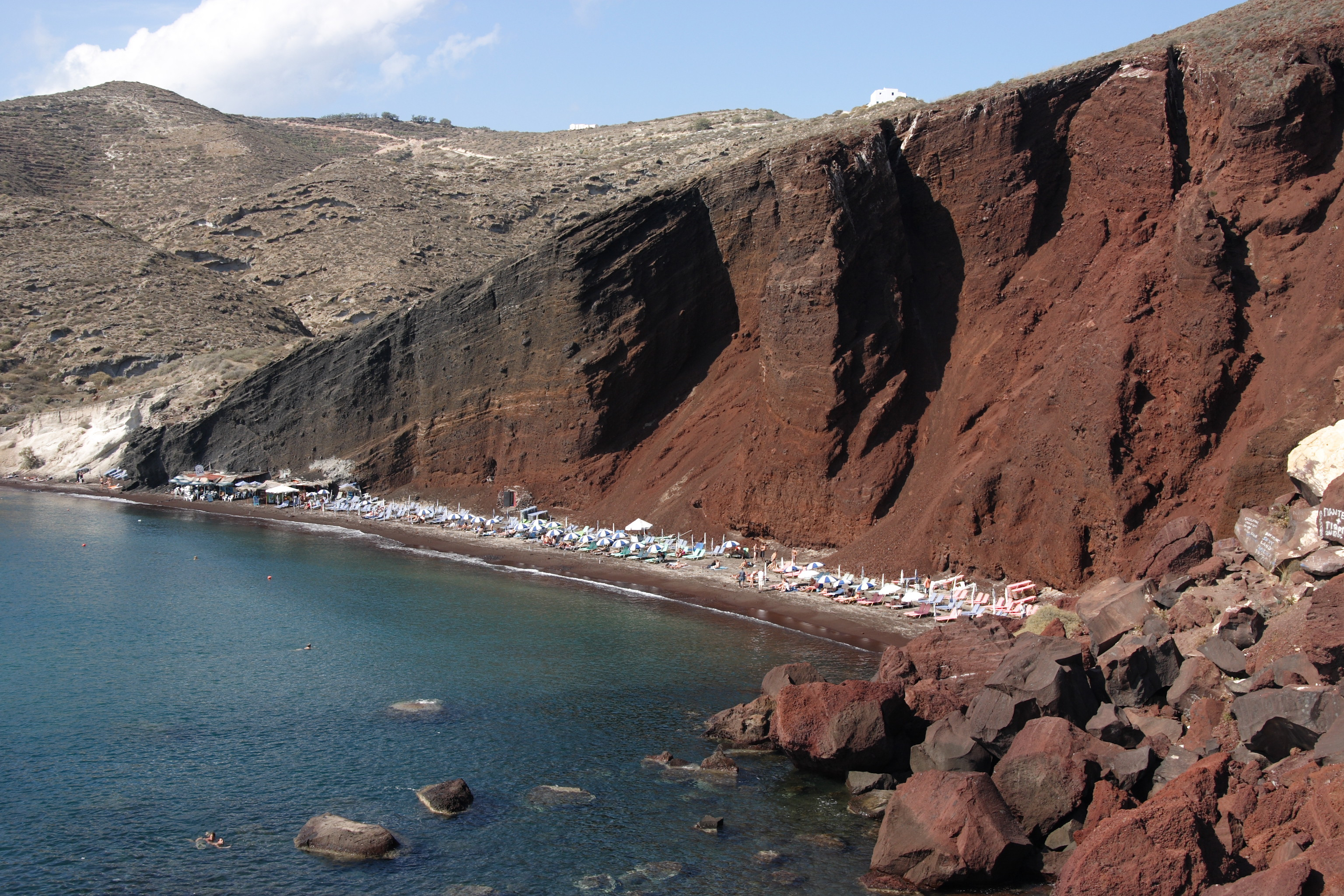 Santorini Red Beach